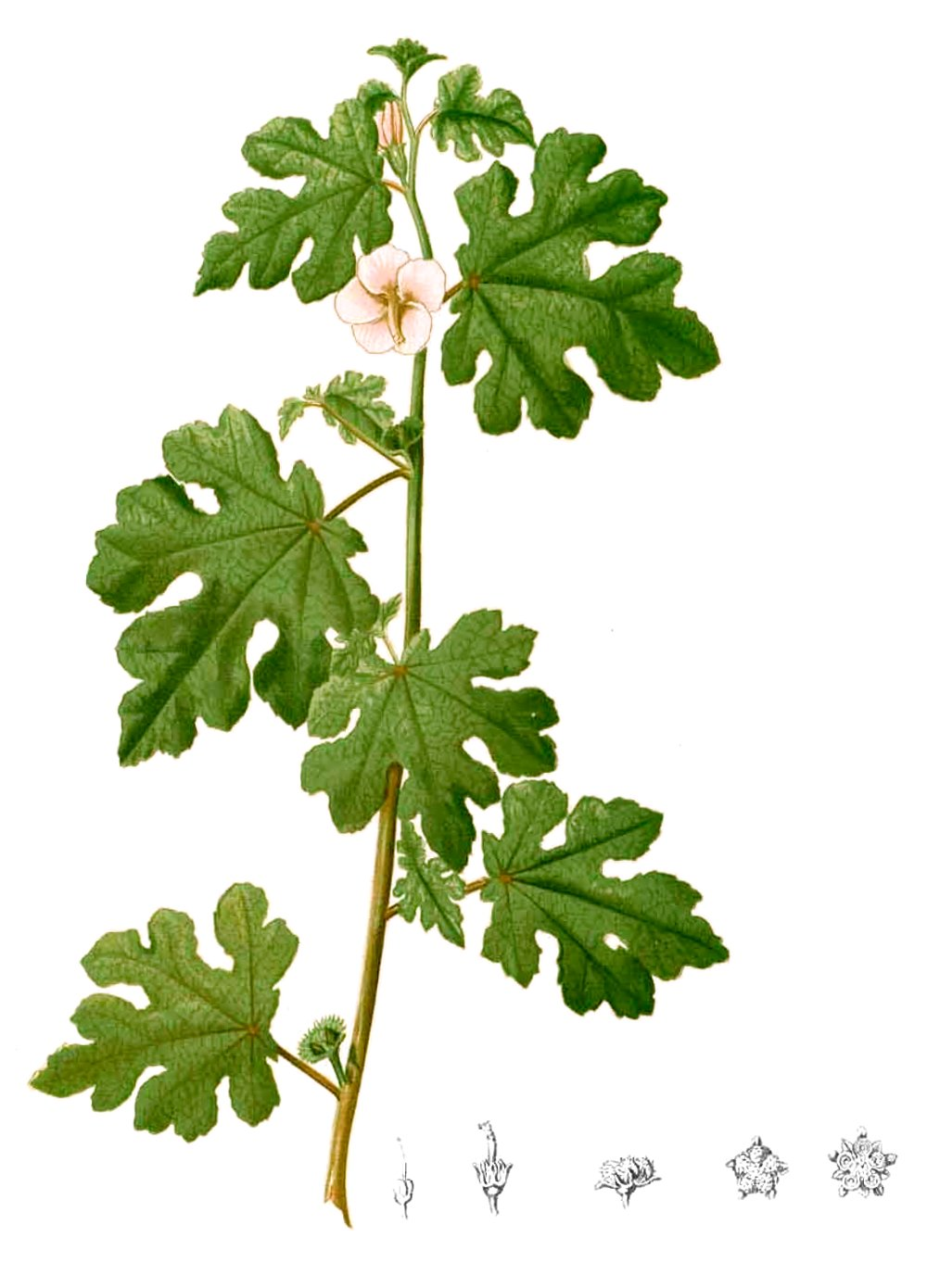 Plate from book